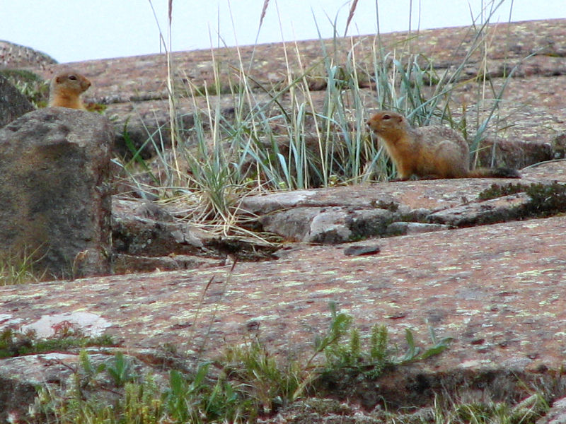 Two Arctic Ground Squirrels (Spermophilus parryii)) taken near Kugluktuk, Nunavut